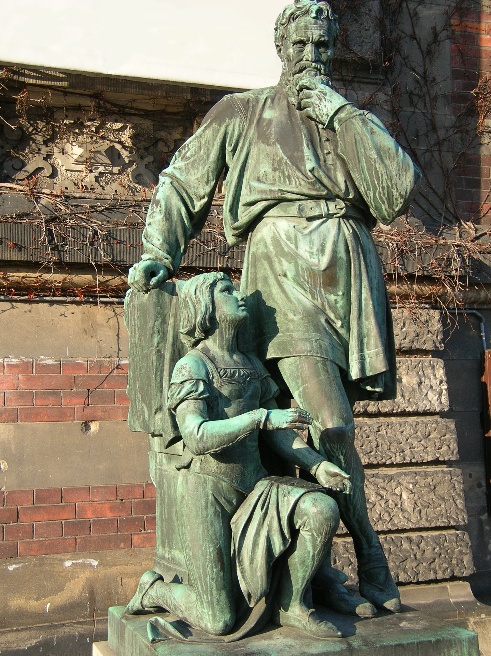 Monument of Michelangelo by Robert Härtel (Haertel) in 1881. Bronze. National Museum in Wrocław